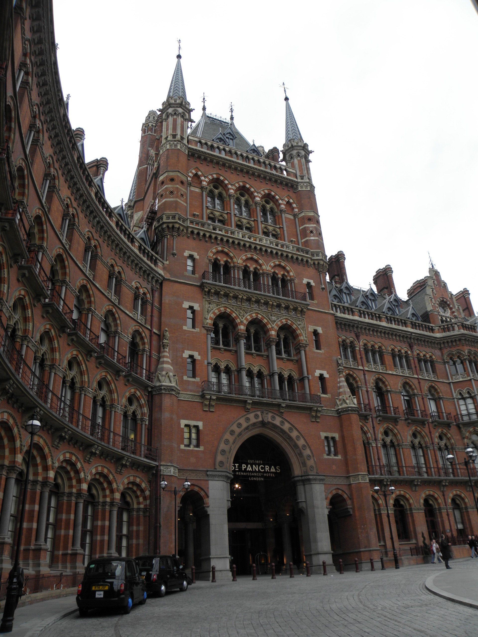 St Pancras International and St Pancras Hotel exterior in March 2012.